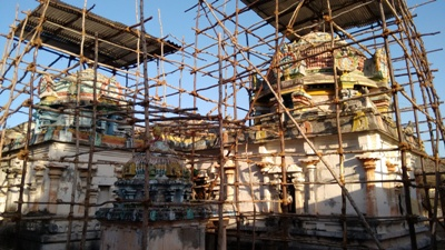 Darasuram avudayanathasamy temple தாராசுரம் ஆவுடையநாதசுவாமி கோயில்